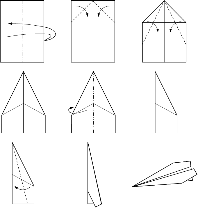 Traditional paper plane. The paper size used here has the same aspect ratio as A4, but nearly any paper size can be used. It flies.